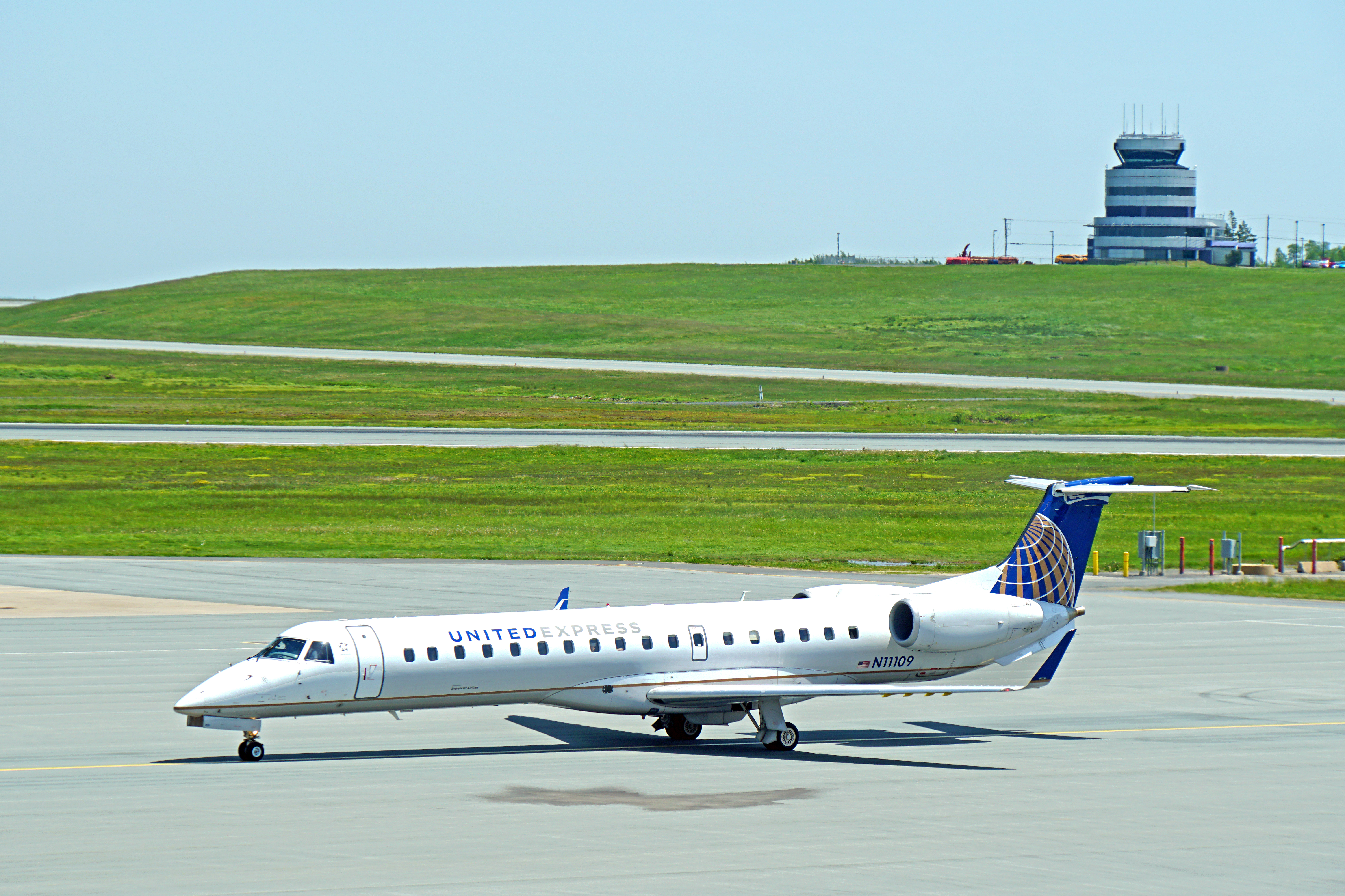 PLEASE, NO invitations or self promotions, THEY WILL BE DELETED. My photos are FREE to use, just give me credit and it would be nice if you let me know, thanks. One of the planes that landed at the airport while I was there.